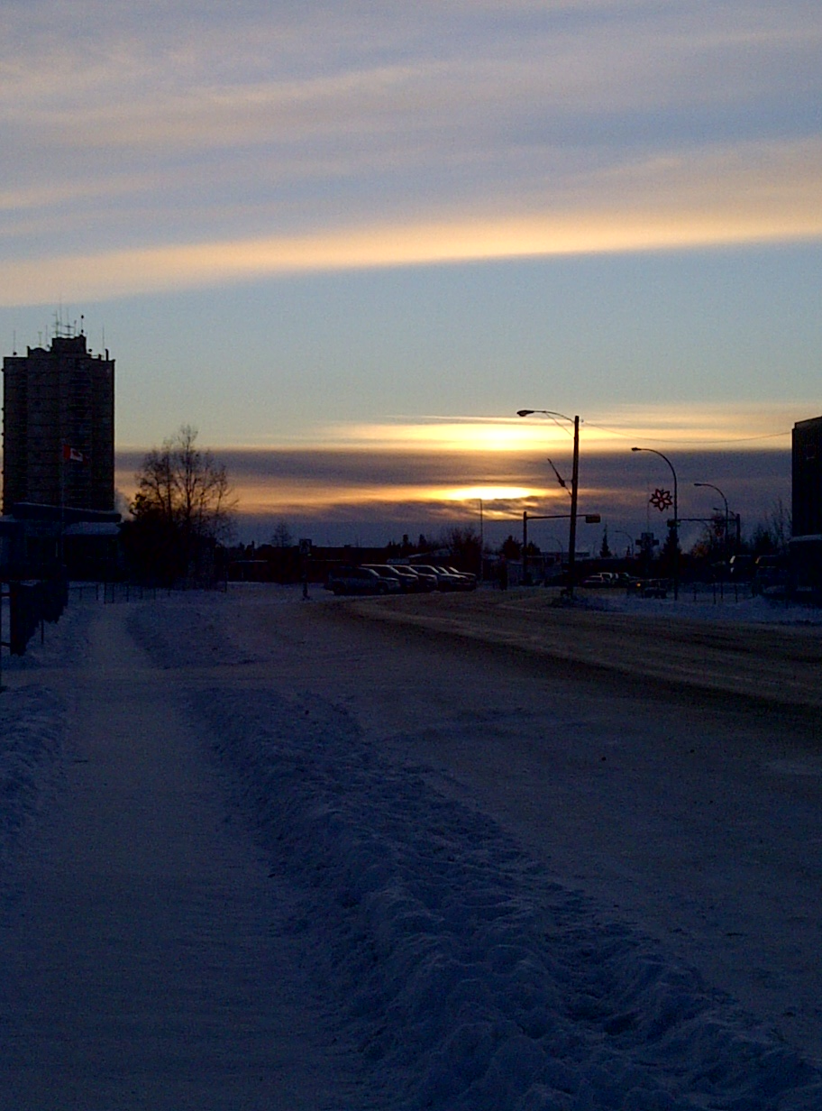 21 December 2011 at approximately 3:00 pm.